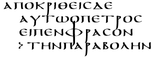 the fragment contains text of the Matthew 15:15